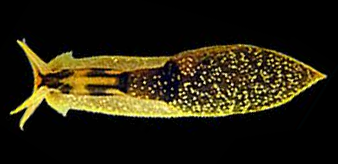 Photo of dorsal view of Acochlidium bayerfehlmanni.